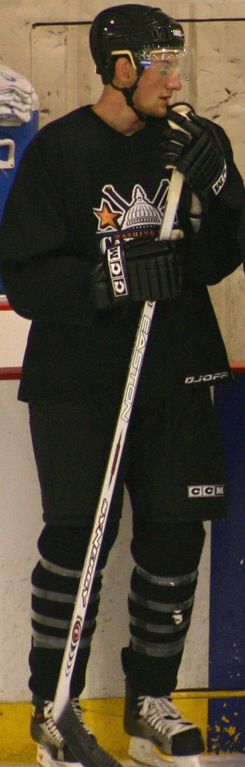 Jeff Schultz Washington Capitals 2005 Training Camp